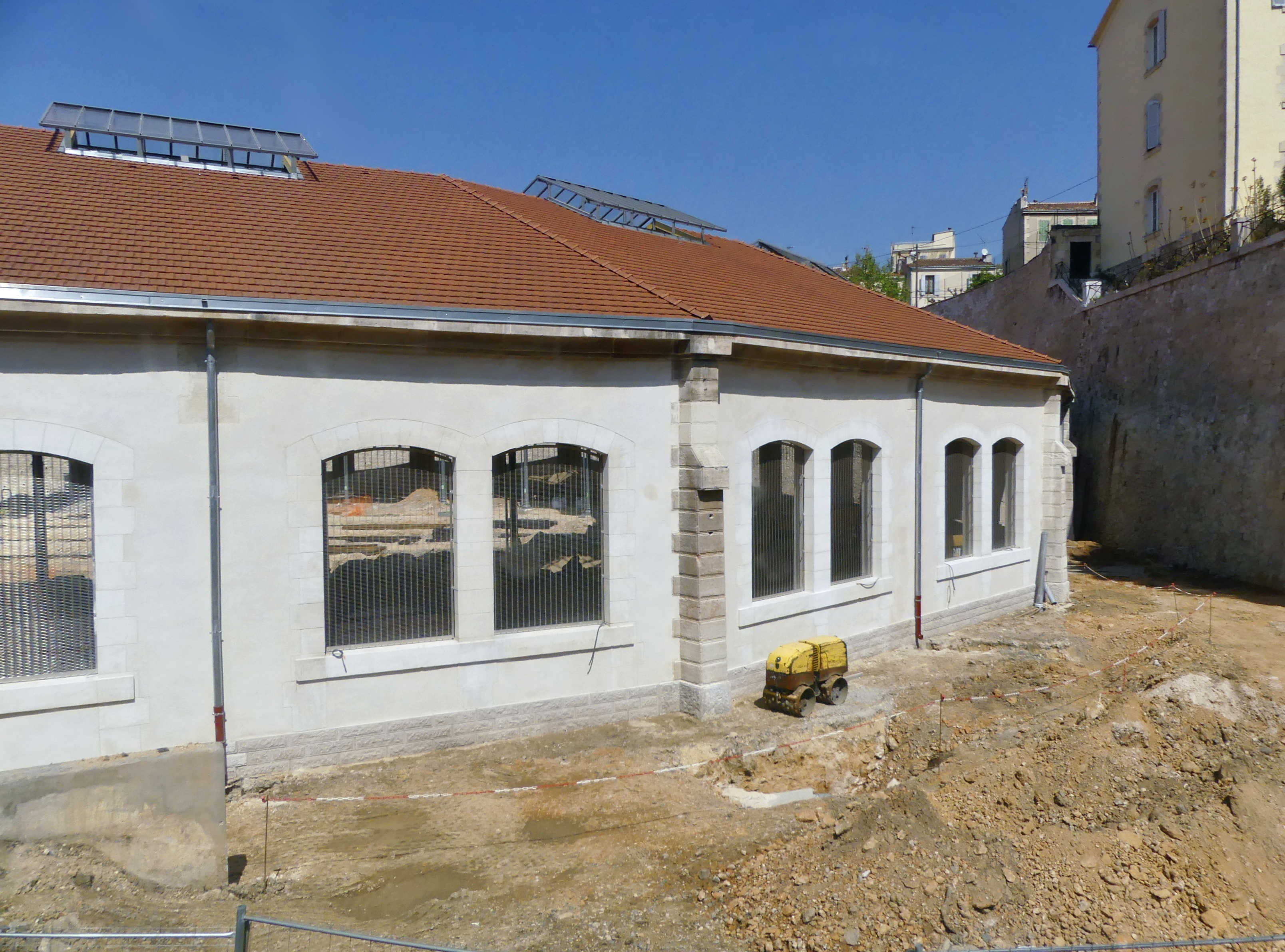 Sight of a part of Marseille-Saint-Charles railway roundhouse during the renovation works, in Bouches-du-Rhône, France.